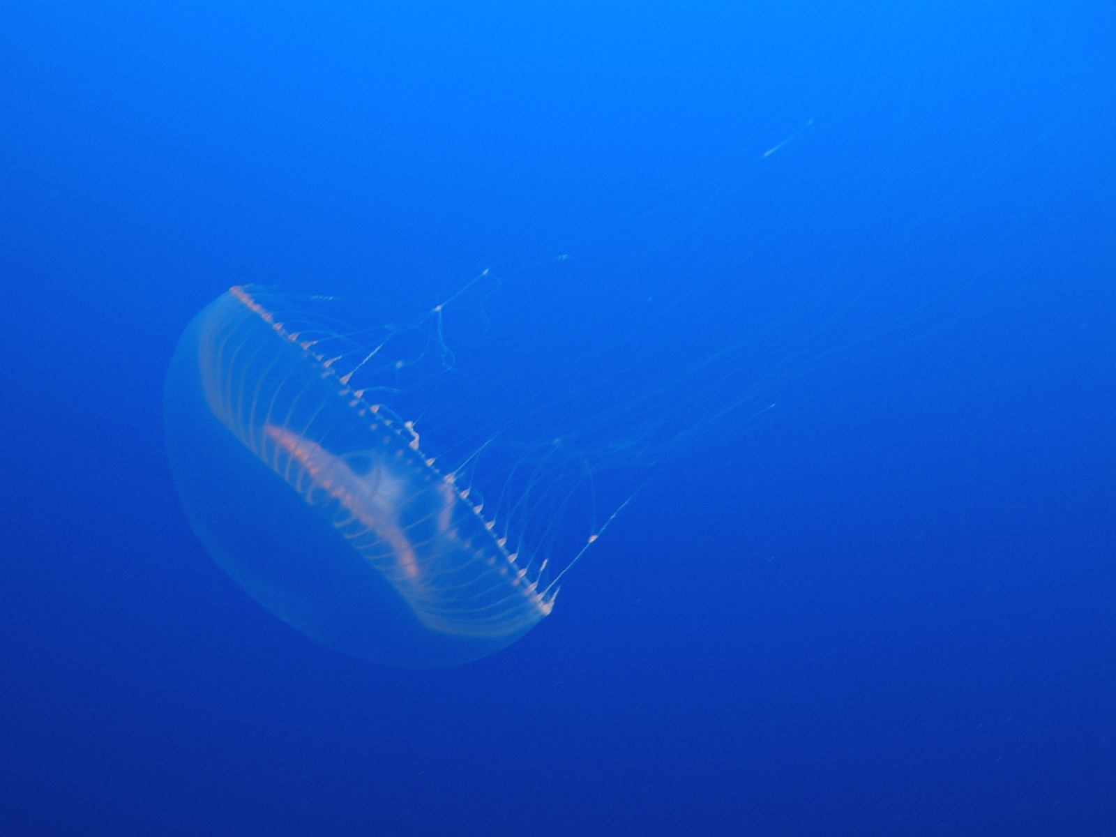 Crystal jelly (Aequorea victoria)